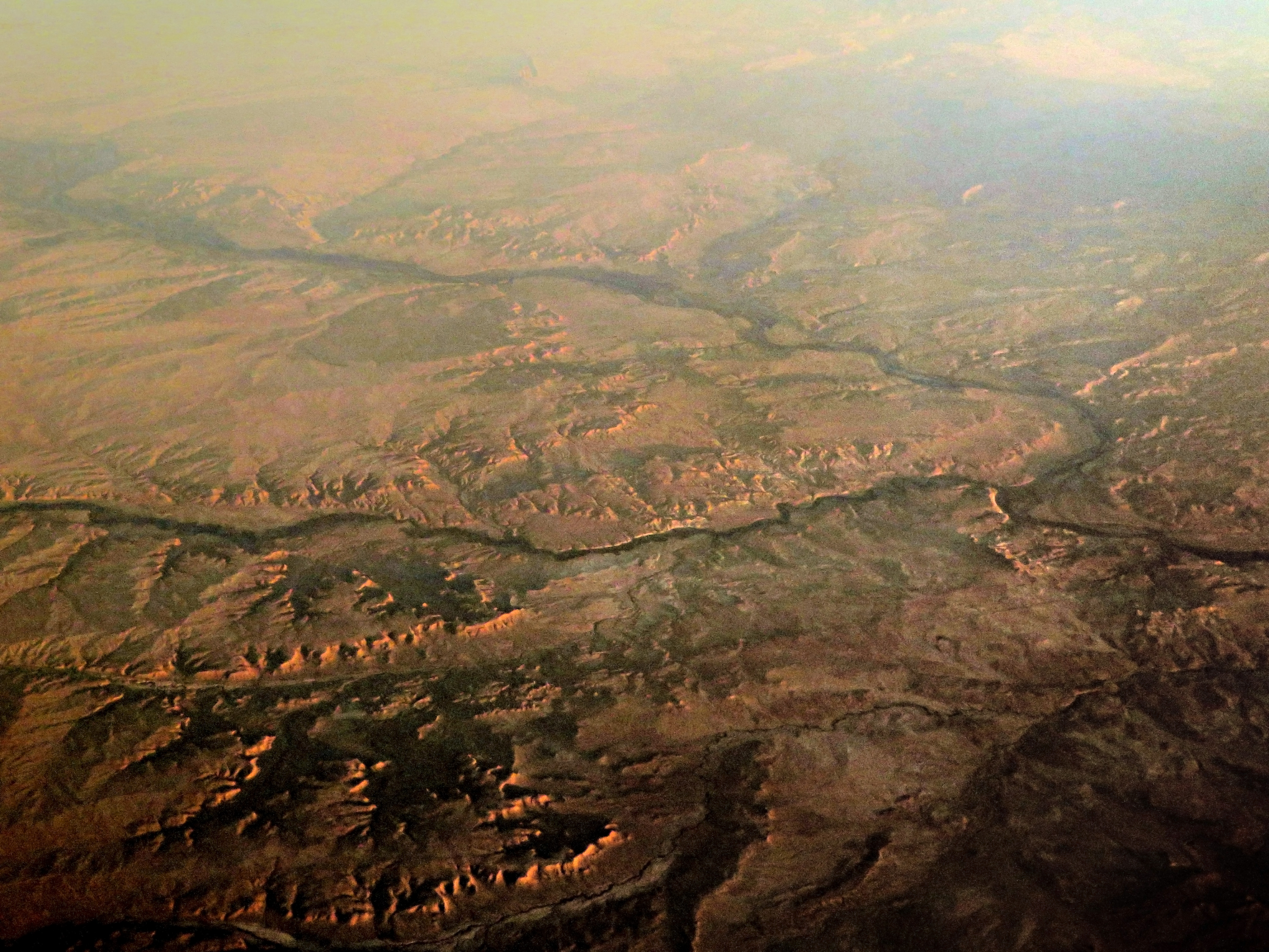 The San Juan River is a significant tributary of the Colorado River in the southwestern United States, about 383 miles (616 km) long. The river drains an area of about 24,600 square miles (64,000 km2) in southwestern Colorado, northwestern New Mexico, southeastern Utah, and a small part of northeastern Arizona. The average flow of the San Juan River at Bluff is about 2,200 cubic feet per second and the highest discharge ever measured was about 70,000 cubic feet per second on September 10, 1927. The San Juan River joins the Colorado River at Lake Powell, a huge reservoir, and in fact the westmost (and lowest) miles of the San Juan River are impounded by Lake Powell and the Glen Canyon Dam. Most of the San Juan River lies in San Juan County, New Mexico and San Juan County, Utah, which share a boundary of one point at the Four Corners. The San Juan River lies just a few miles northeast of the Four Corners point.